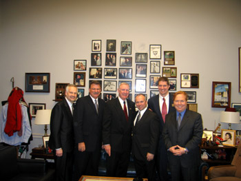 March 2, 2005 - Marion, Indiana Mayor Wayne Seybold and Eric Walts with Congressman Dan Burton.